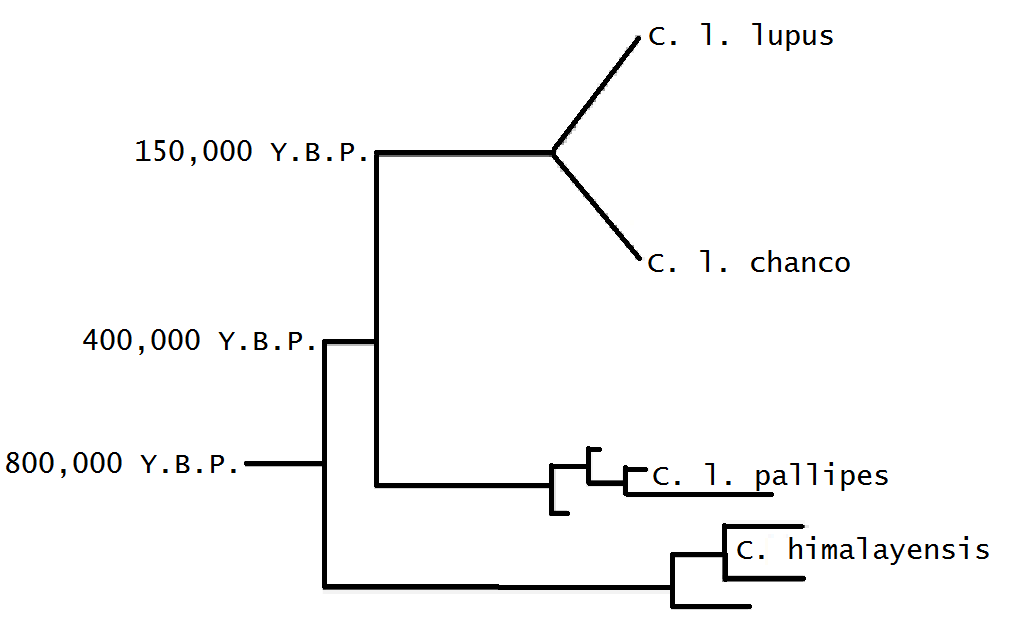 Cladogram of Canis lupus in the Indian subcontinent, based on The Ancient Wolves of India